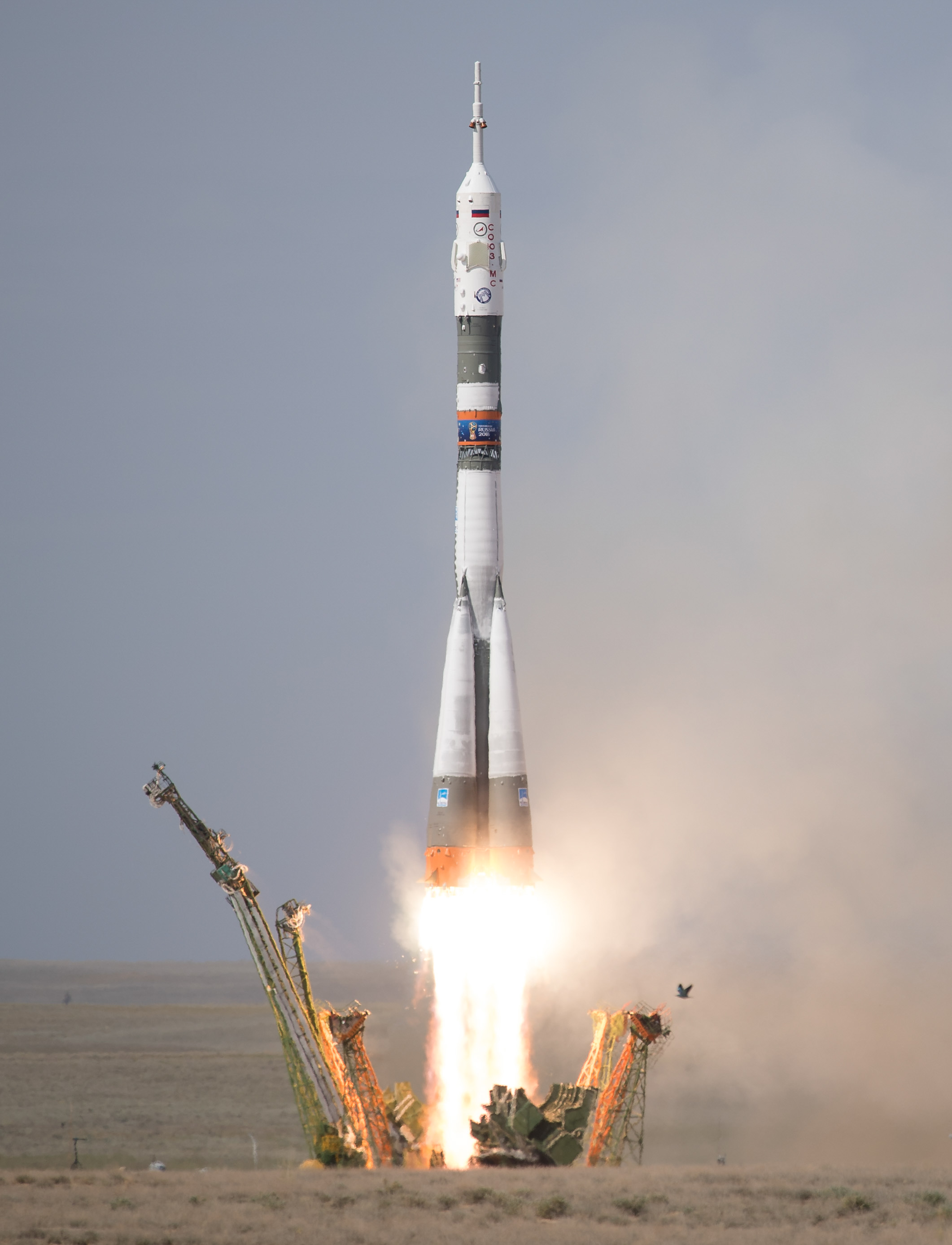 The Soyuz MS-09 rocket is launched with Expedition 56 Soyuz Commander Sergey Prokopyev of Roscosmos, flight engineer Serena Auñón-Chancellor of NASA, and flight engineer Alexander Gerst of ESA (European Space Agency), Wednesday, June 6, 2018 at the Baikonur Cosmodrome in Kazakhstan. Prokopyev, Auñón-Chancellor, and Gerst will spend the next six months living and working aboard the International Space Station.